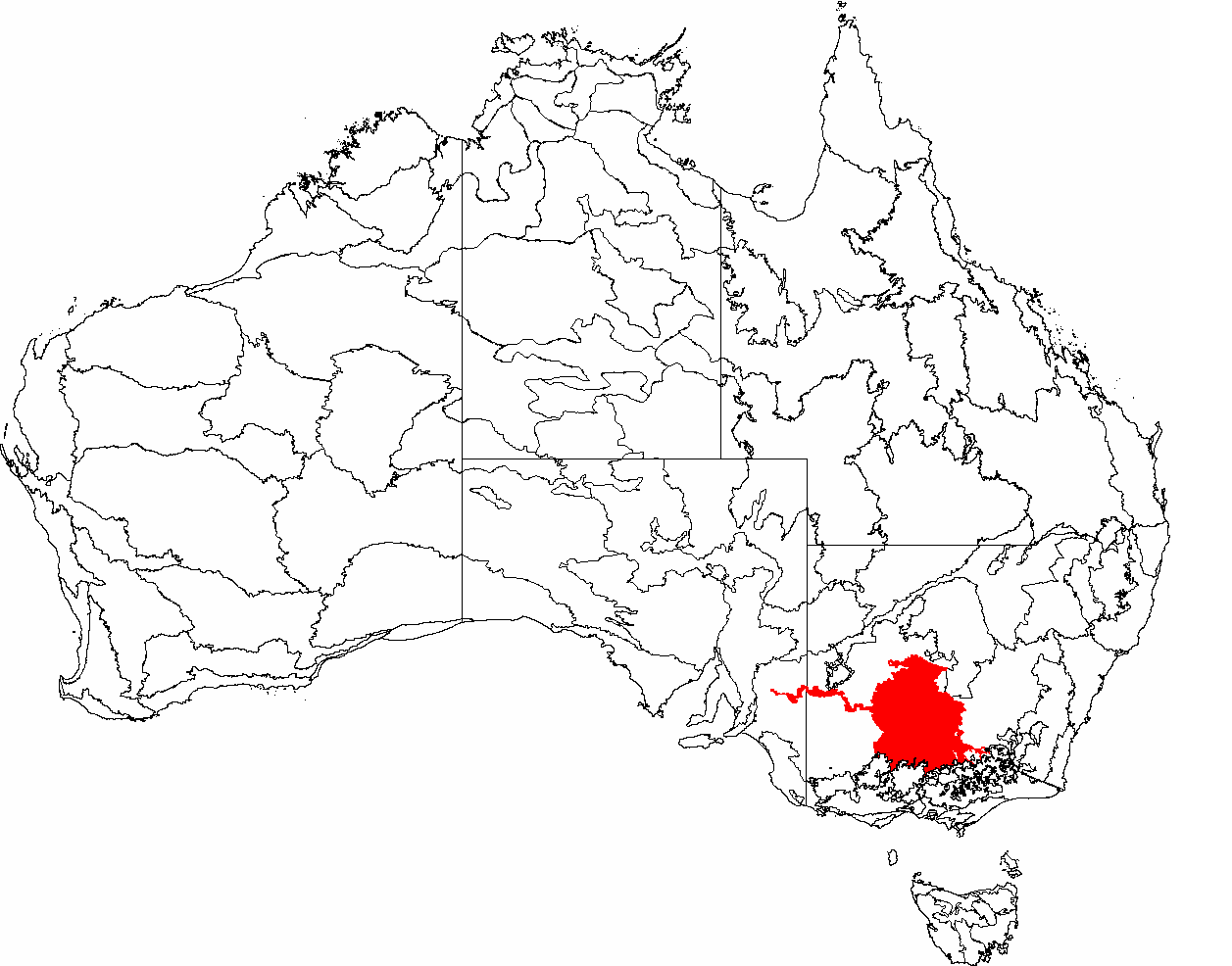 This is a map of the Interim Biogeographic Regionalisation of Australia (IBRA), with state boundaries overlaid. The Riverina region is shown in red.